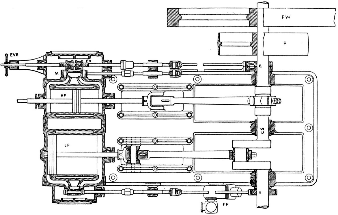 Cross compound engine, plan section (Heat Engines, 1913).jpg